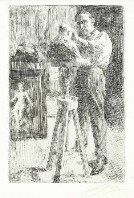 Prins Paul Troubetzkoy I, 1908.